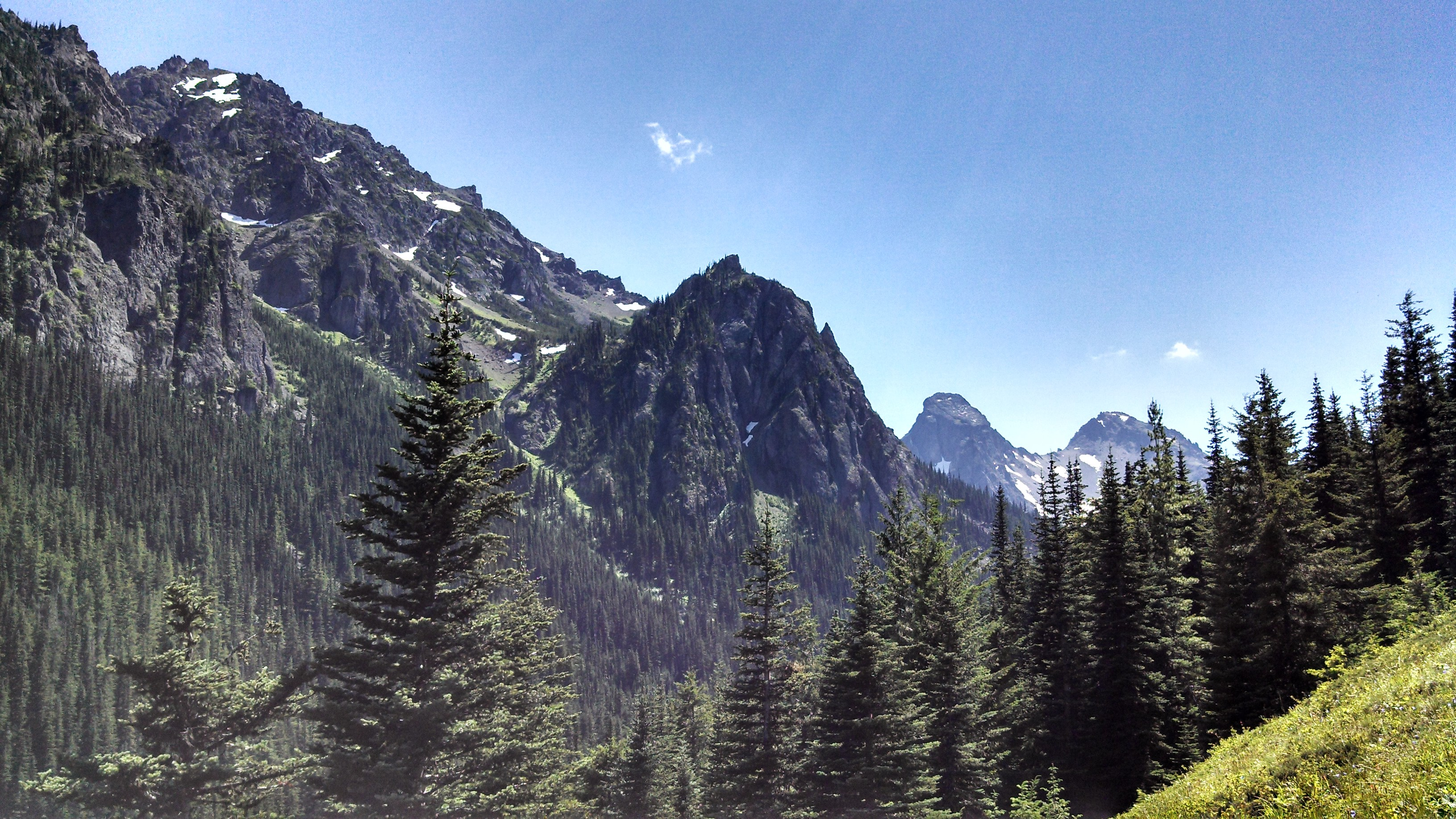 Mt. Worthington (upper left) and Buckhorn Mountain (right) as the Pacific Northwest Trail crosses the Olympic Peninsula